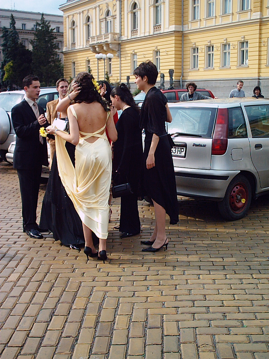 School Graduates on the "Yellow cobbles" Sofia Center with the Natrional Gallery as background